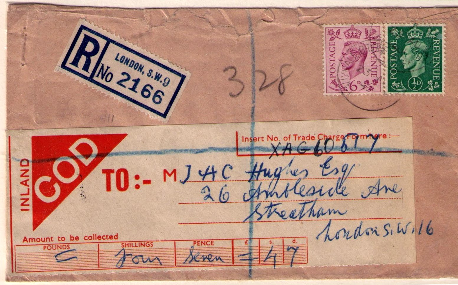 British cash on delivery cover 1940s.